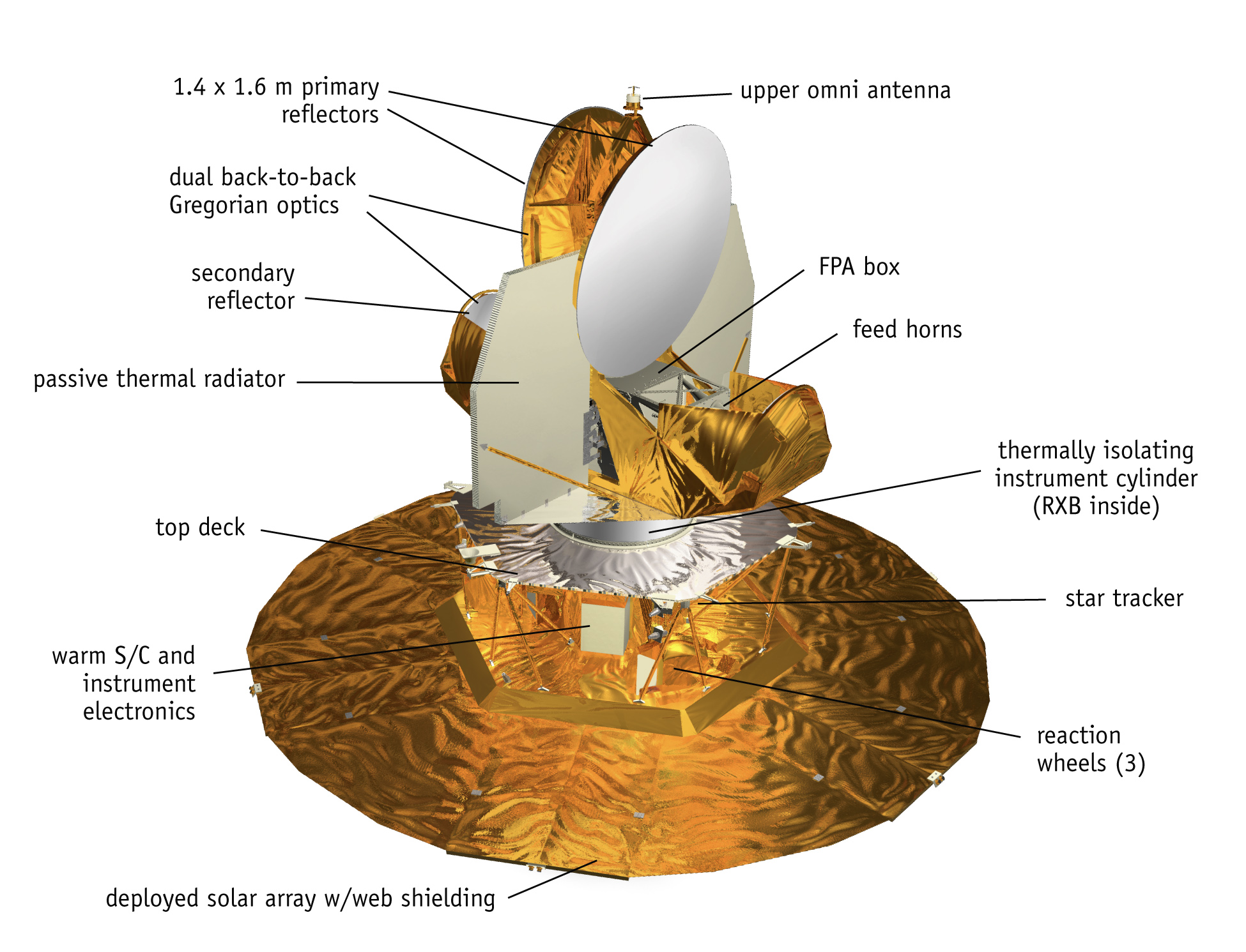 WMAP.